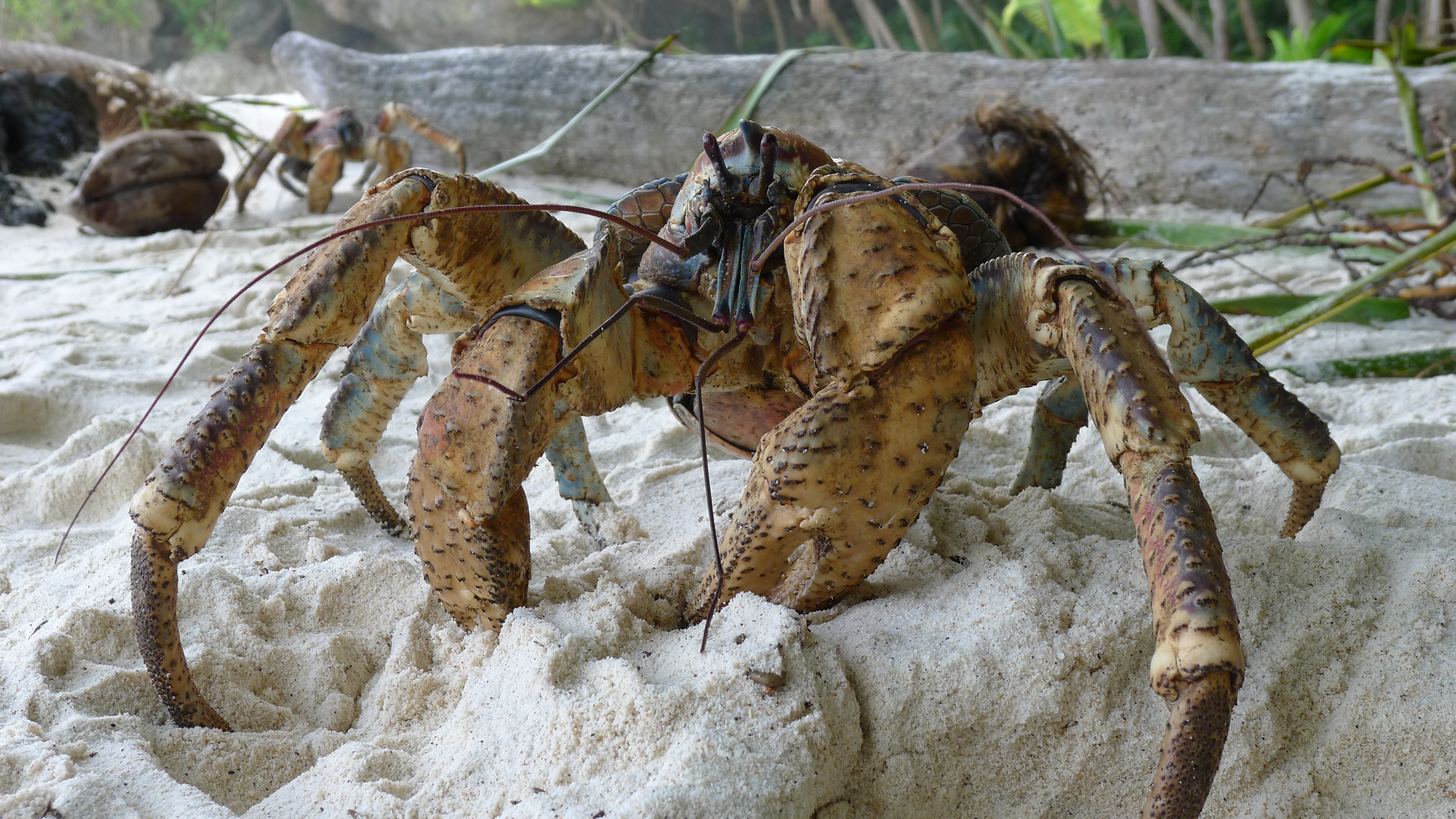 After ripping into a coconut, this Robber crab Birgus latro walked over and introduced himself. Dolly Beach, Christmas Island, Australia, April 2011.